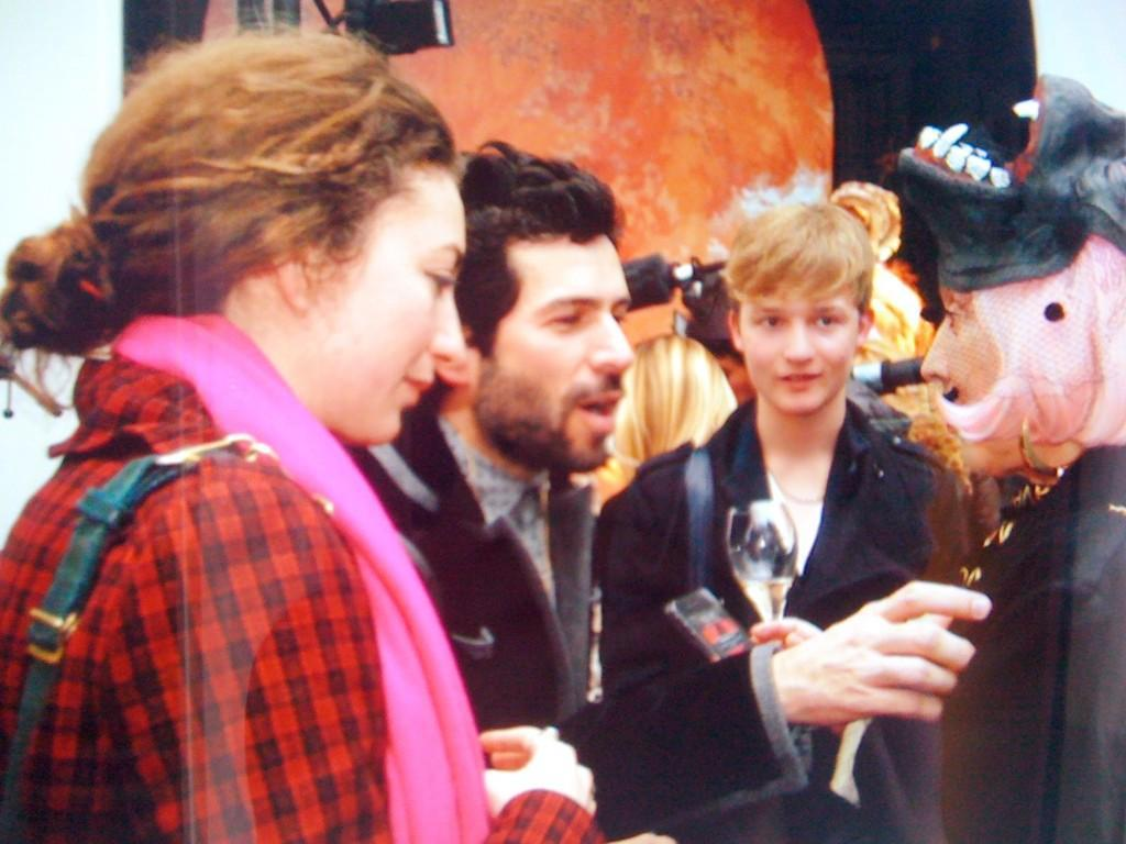 Alexis Mabille à l'inauguration de noël au BHV.